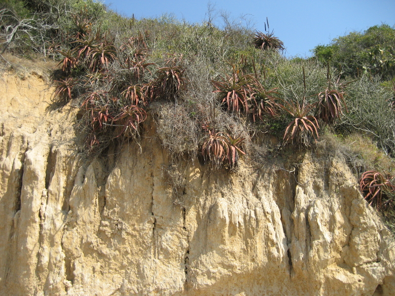 Lots of Aloe spicata on limestone coastal cliffs close to Catembe, Mozambique.